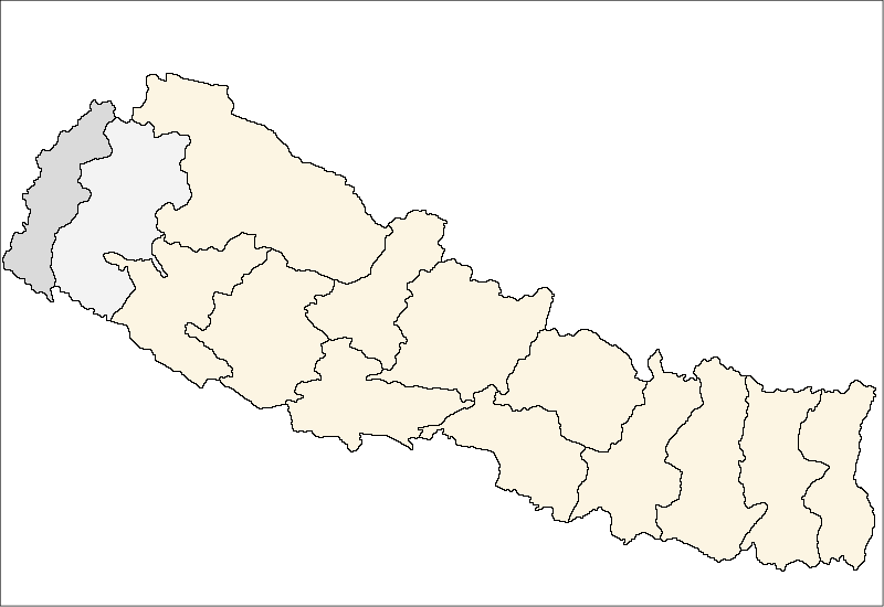 FrenchCarte de localisation de lazone de Mahakali(wp-FR),au Népal (wp-FR).EnglishLocation map ofMahakali Zone(wp-EN),in Nepal (wp-EN).